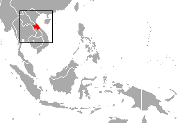 Hatinh Langur (Trachypithecus hatinhensis) range